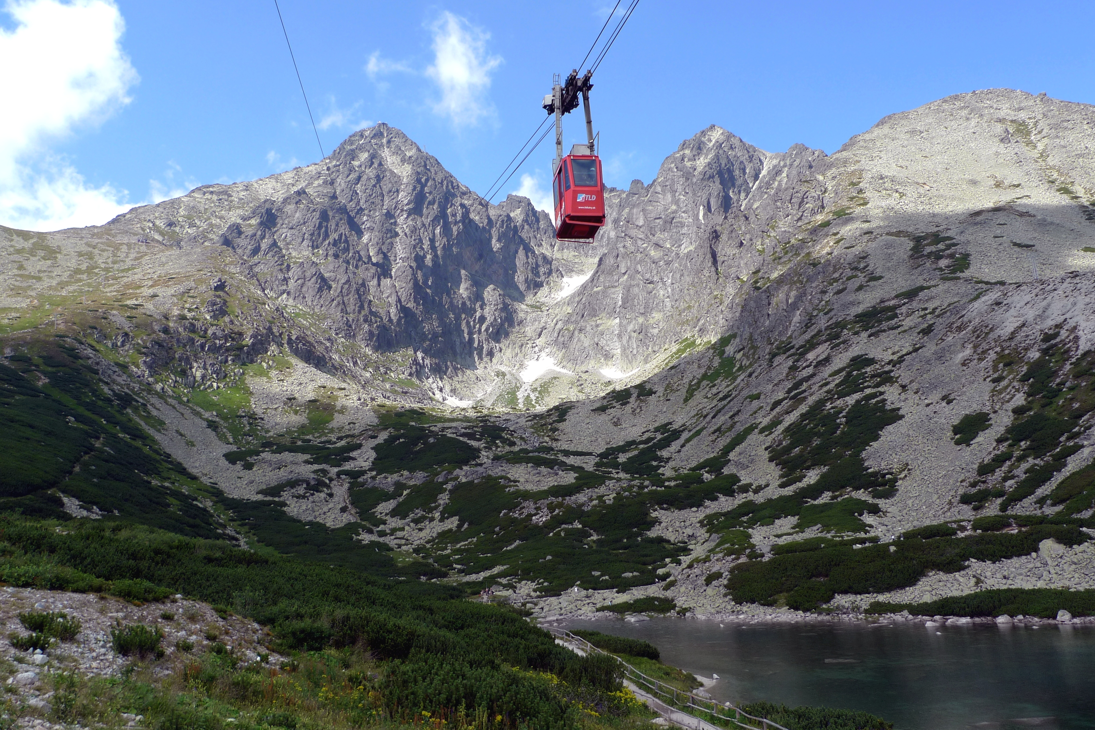 Aerial tramway Skalnaté pleso–Lomnický štít Česky: Visutá lanovka Skalnaté pleso–Lomnický štít